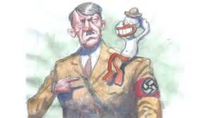 A drawing for the film from Bill Plympton himself